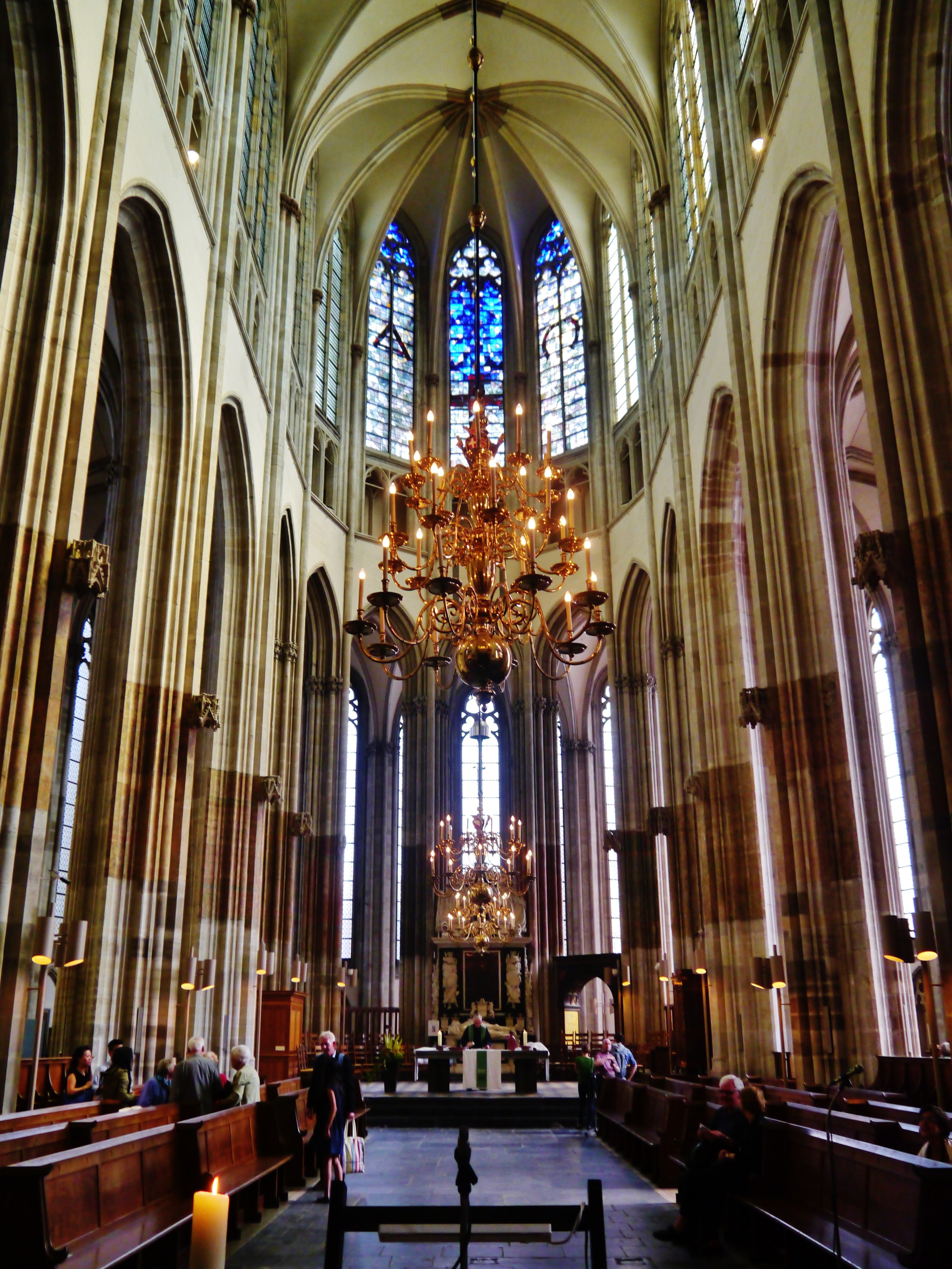 Choir of the Cathedral, Utrecht, Provinz Utrecht, Netherlands